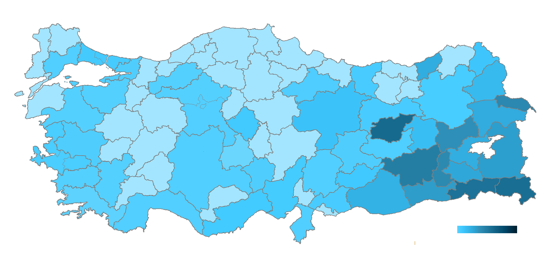 2007 Turkish election map showing the independents' results by il. (Most of the successful independents are actually affiliated with the DTP.)